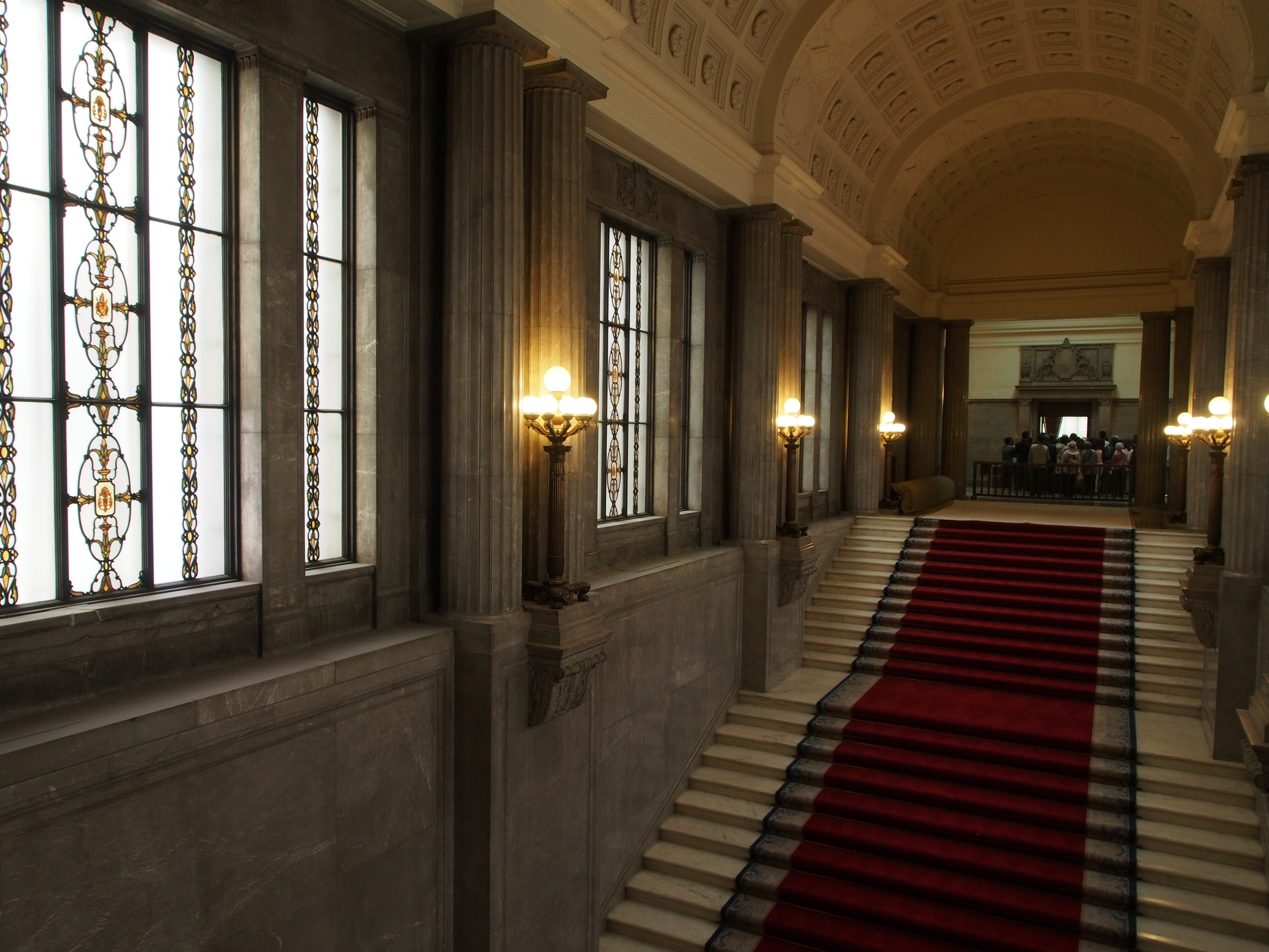 The staircase to the Emperor's Room from the Central Hall in the Diet Building of Japan. Photographed on the Open House day of the House of the Representatives for the 70th Anniversary of the Enactment of the Constitution.